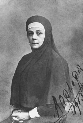 Sister Varvara Yakovleva, Russian Orthodox nun in the convent of Grand Duchess Elizabeth Fyodorovna